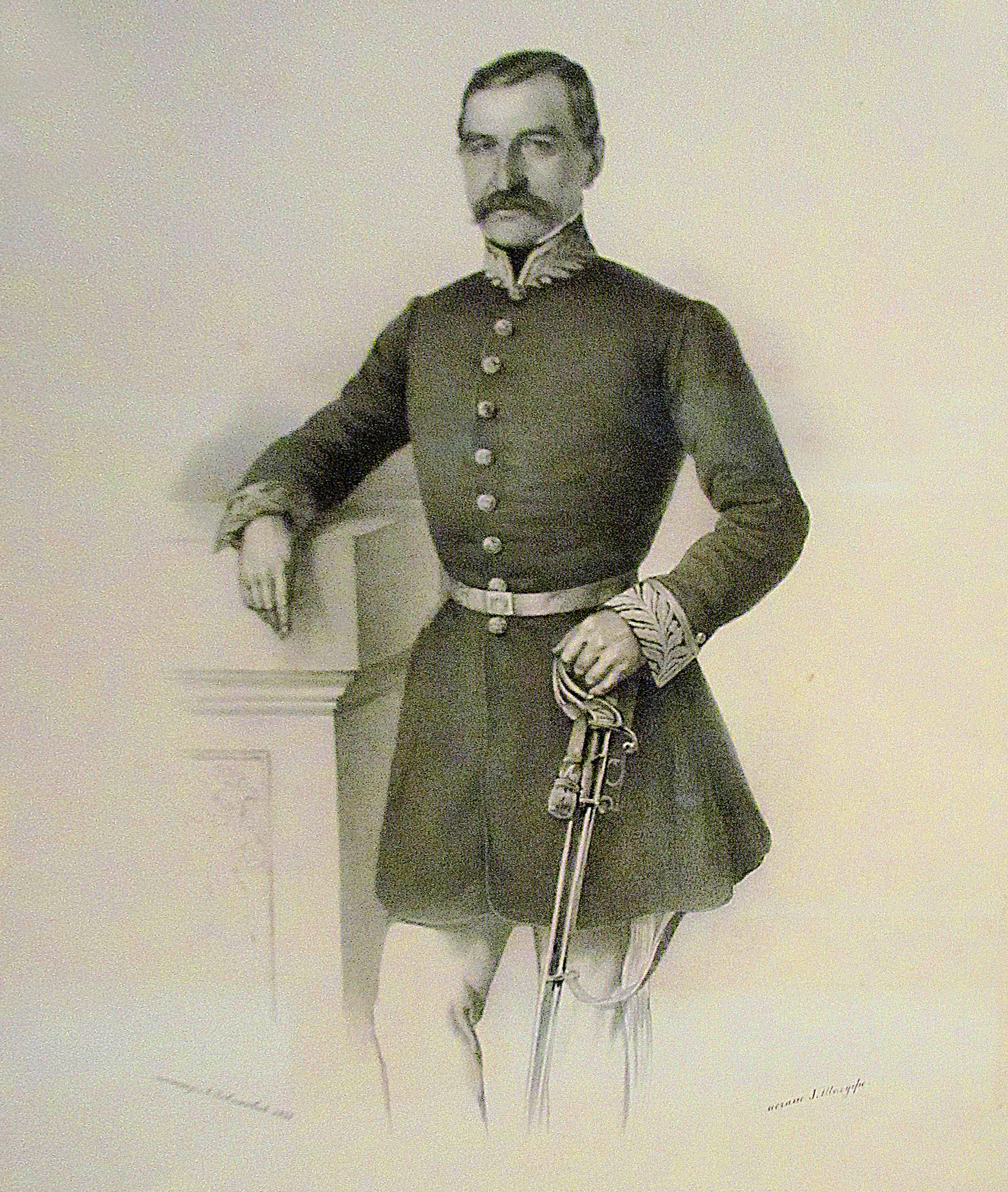 Anastas Jovanović, Aleksa Simić, 1857, lithograph, National Museum of Serbia